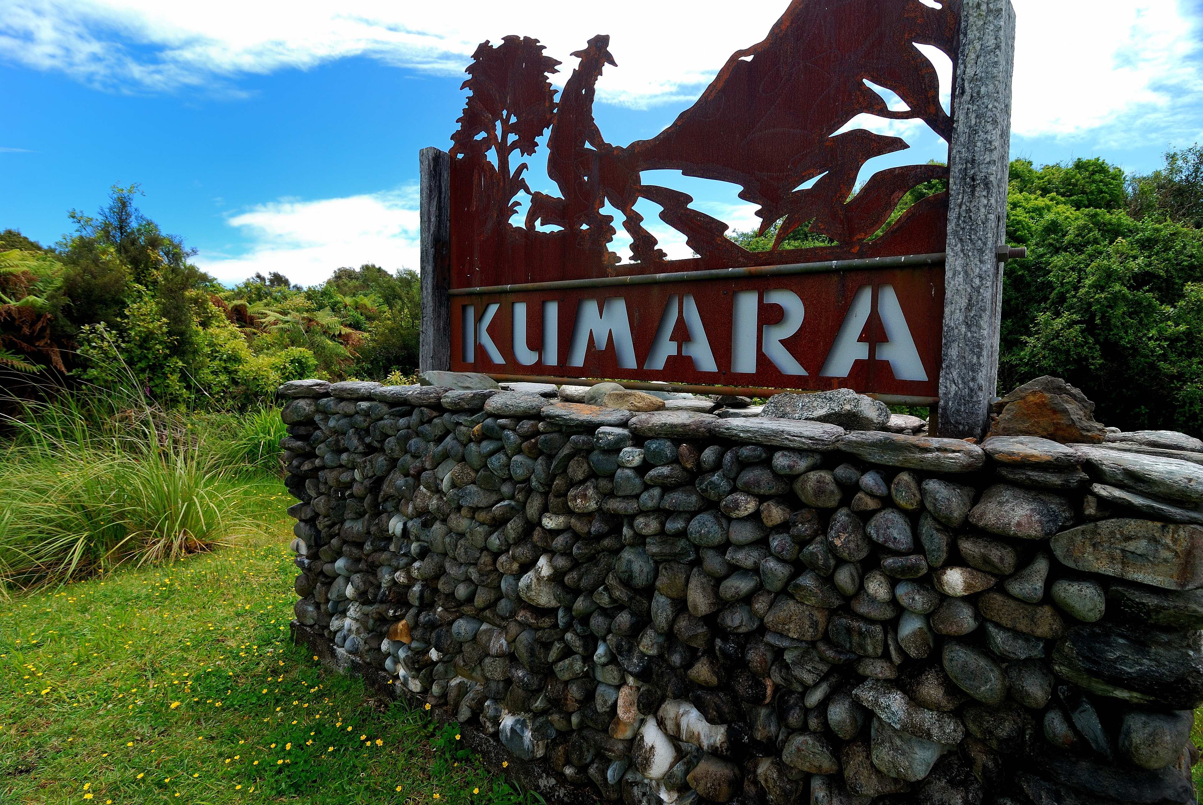 Western entry (from Christchurch) into Kumara.